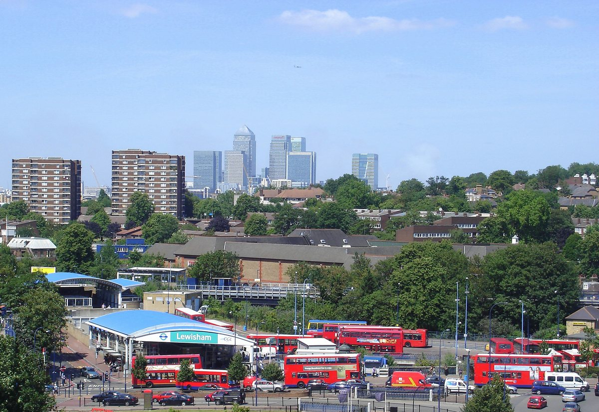 Author: Matthew Kimemia